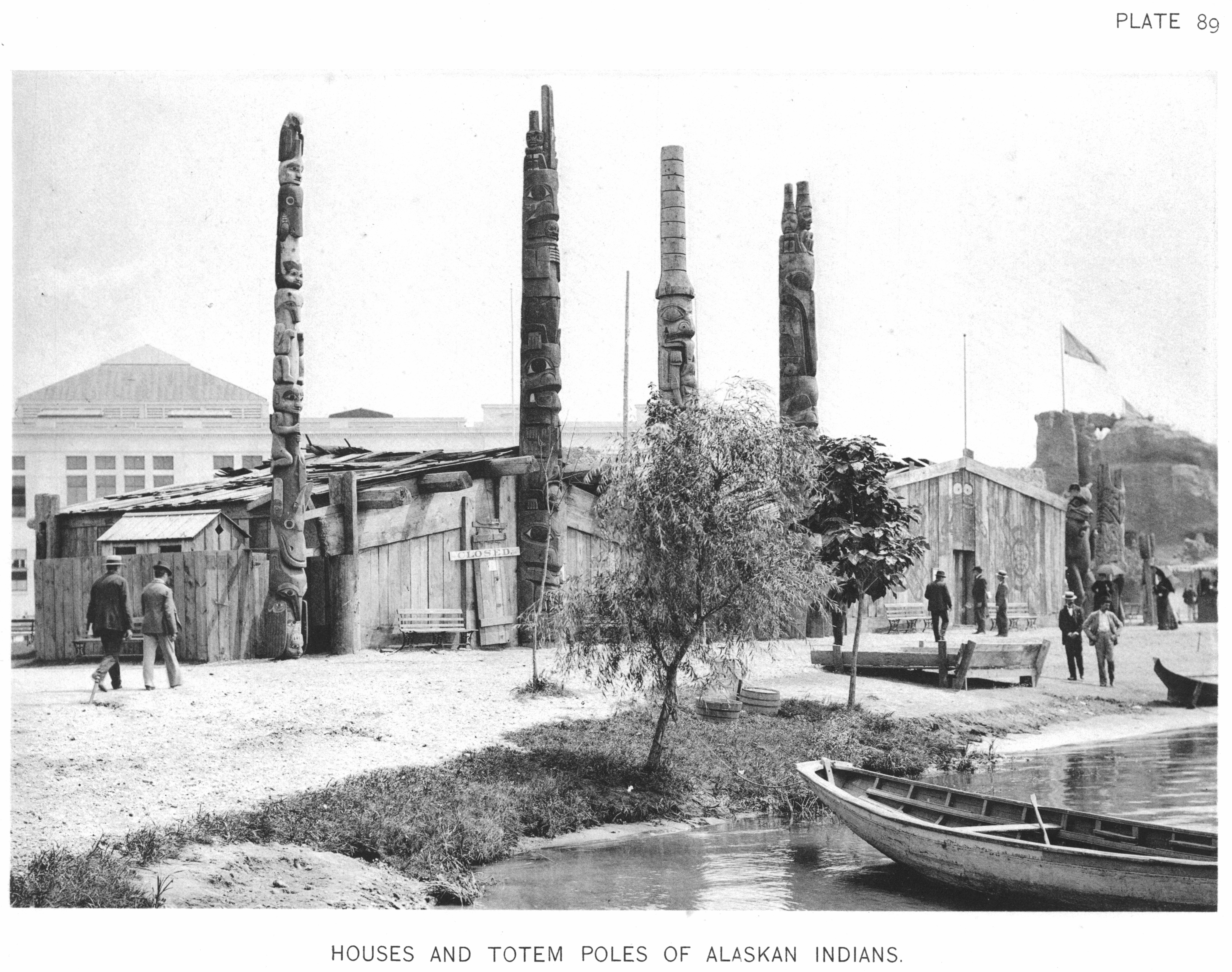 Official Views Of The World's Columbian Exposition: Houses And Totem Poles Of Alaskan Indians